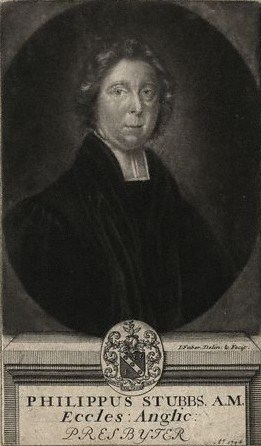 Portrait of archdeacon Philip Stubbs